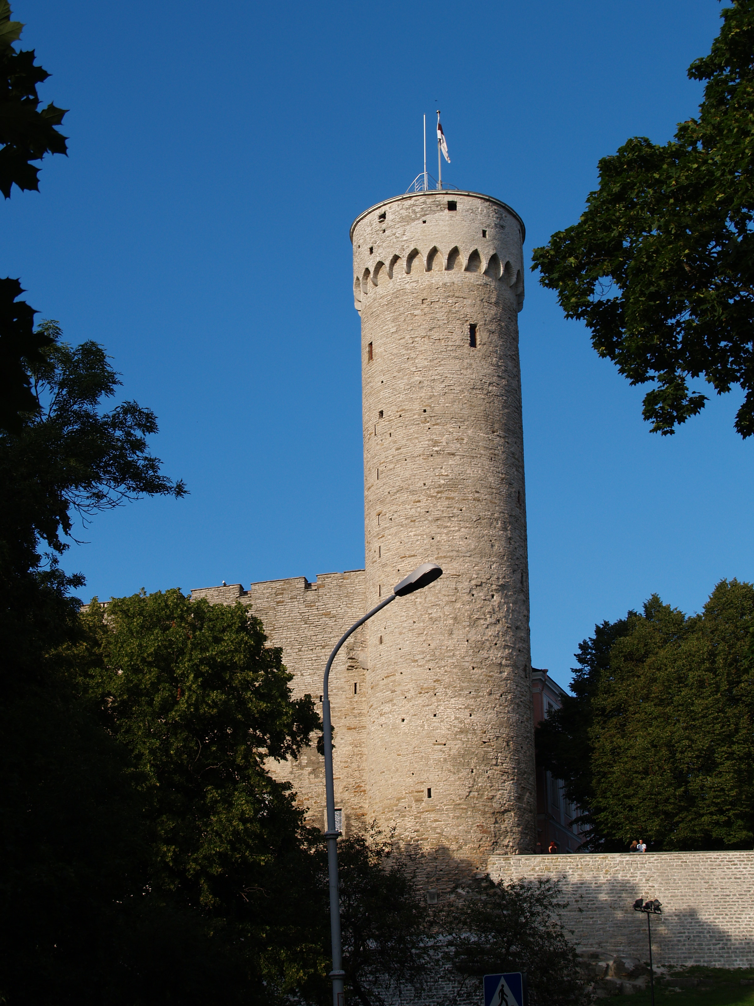 Pikk Hermann (Tall Hermann) with Estonian flag.